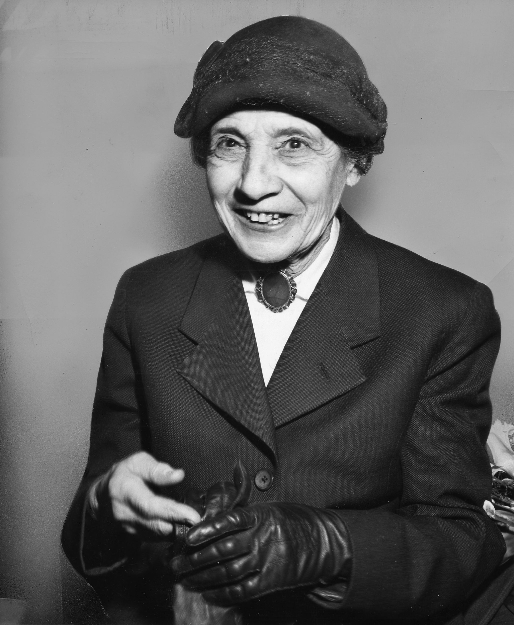 Lise Meitner (1878–1968), Austrian-Swedish physicist.